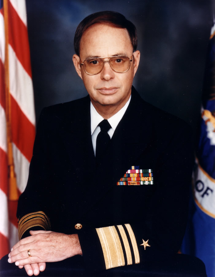 Vice Admiral William Studeman, director of the NSA from 1988 to 1992.